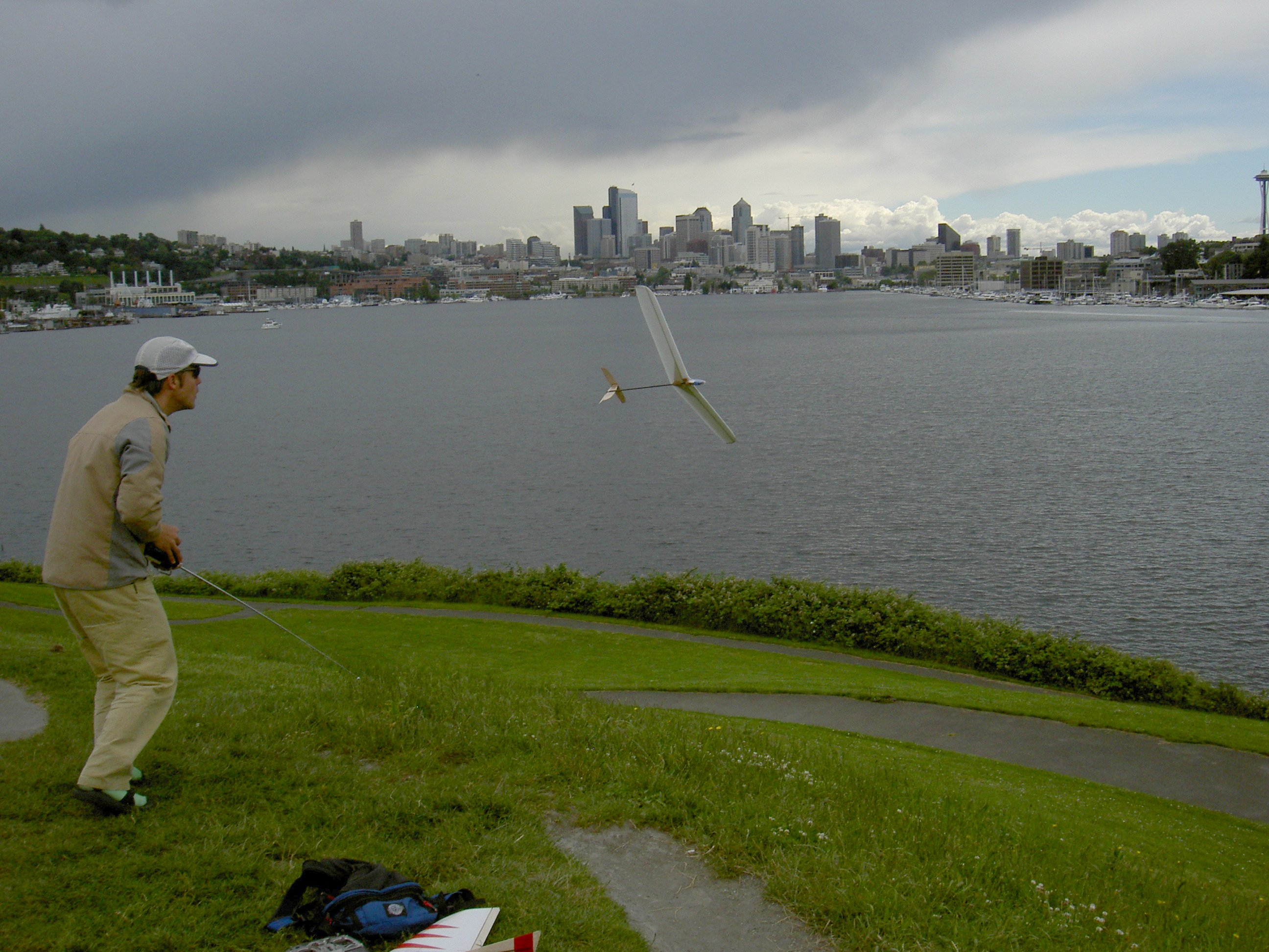 Scobie Putchler flying his own design, the Swyft HLG (Hand-Launched Glider), at Gasworks Hill, Seattle, WA